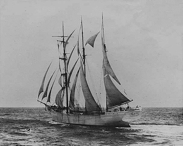 Benicia, a three-mast sailing barkentine, at sea (lumber carrier out of Grays Harbor, Washington). Handwritten on verso: Barkentine Benicia, S.F.